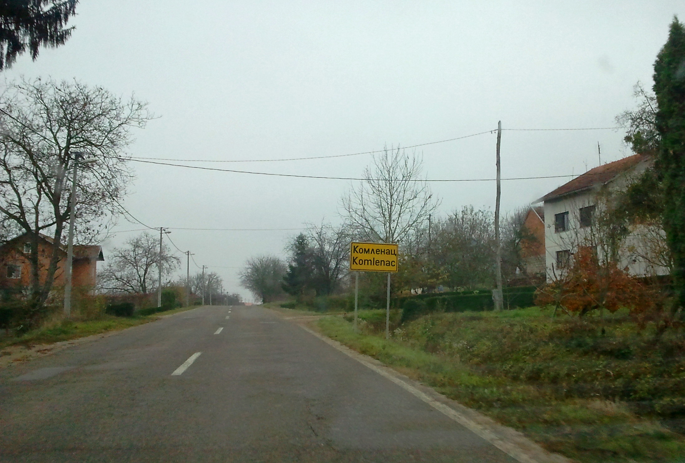 Komlenac village, Republika Srpska.